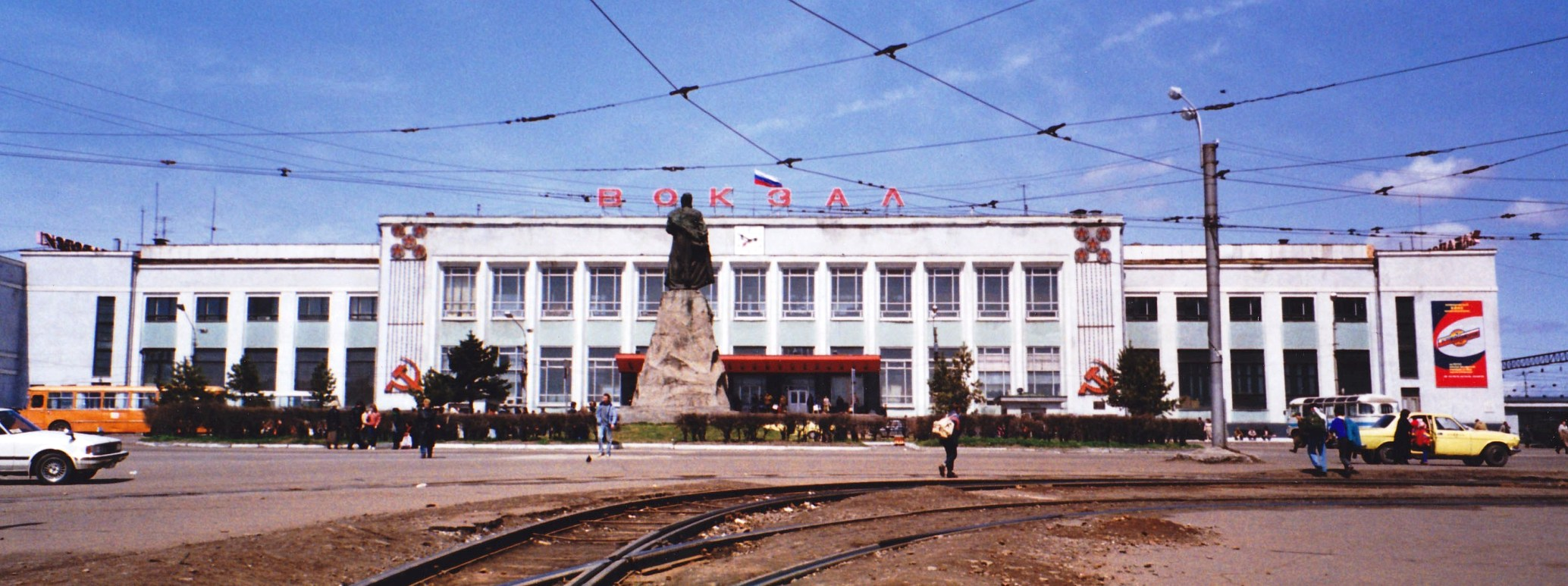 Khabarovsk-1 railway station on 4th May 1992.